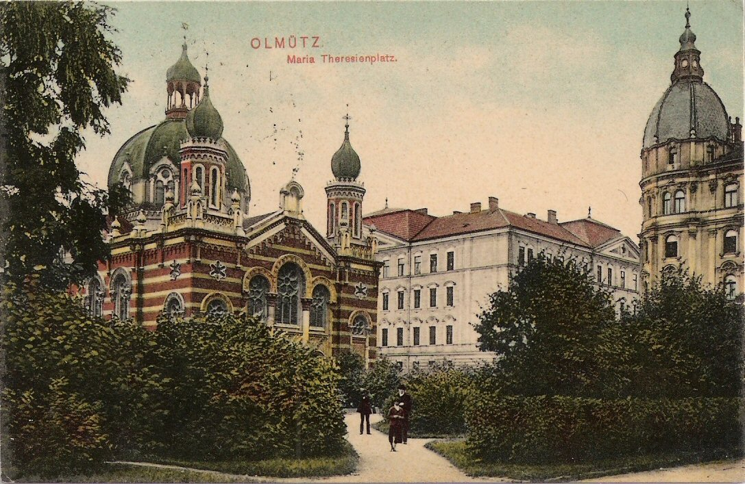 The Olomouc Synagogue on a vintage postcard from turnover of the 20th Century